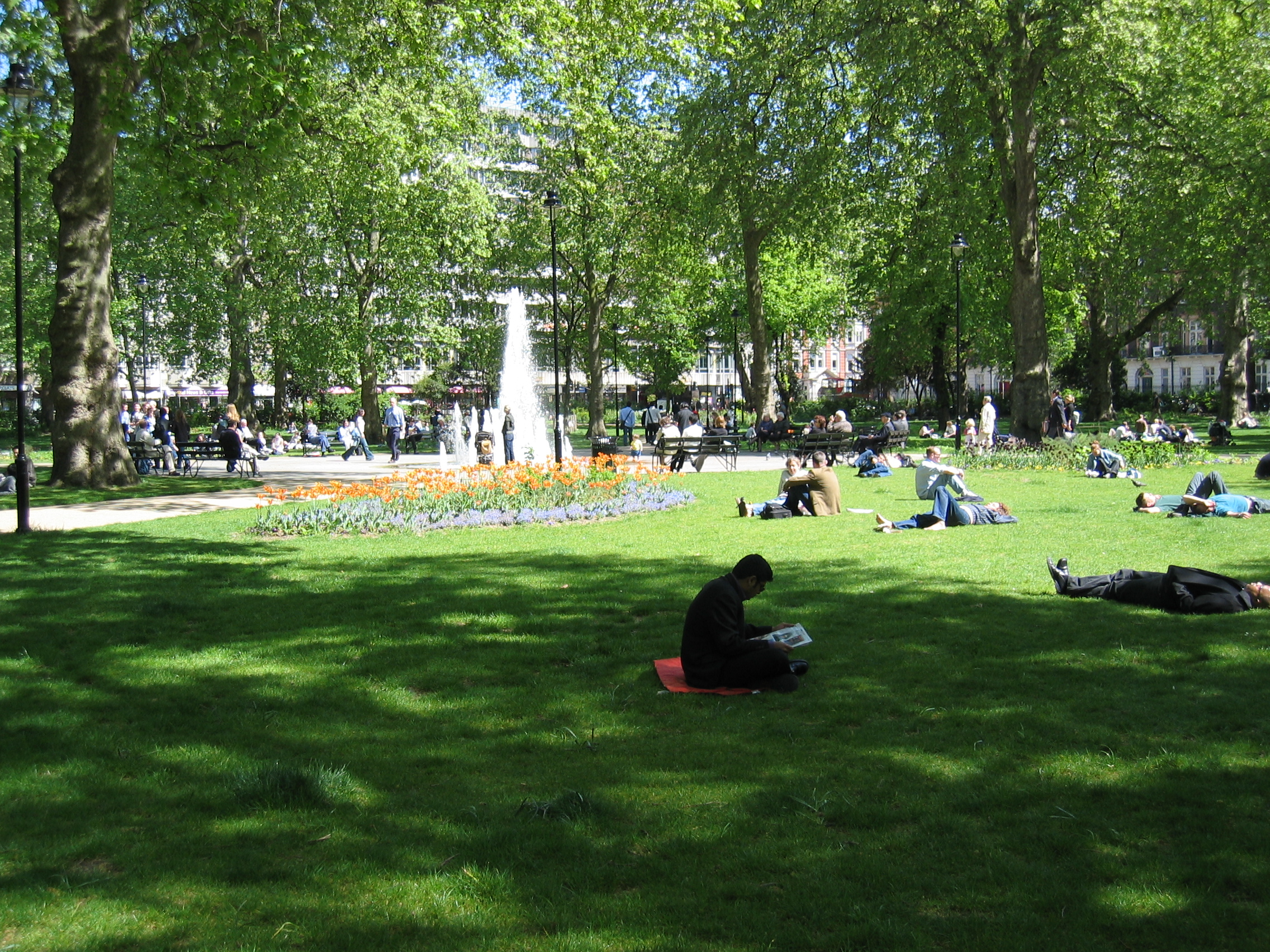 Summer Russell Square